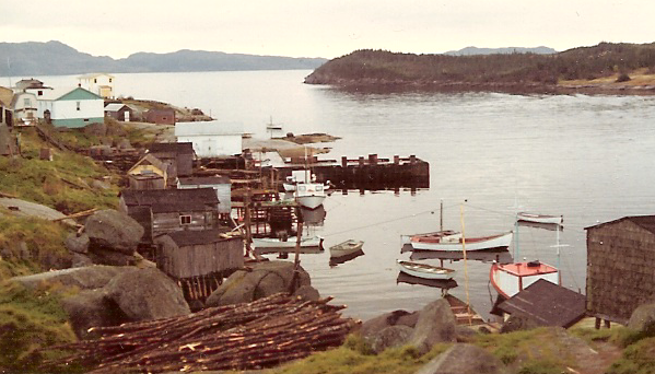 The substantial pier in the center of the photograph was built by the Canadian government to allow refrigerated ships to load the Grand Banks catch of LaPoile Bay fishermen. When the photo was taken in 1971, fishermen reported receiving 5 cents per pound for Atlantic cod and 7.5 cents per pound for halibut. Smaller piers constructed of local scrub conifer tree species were more typical of outport facilities.